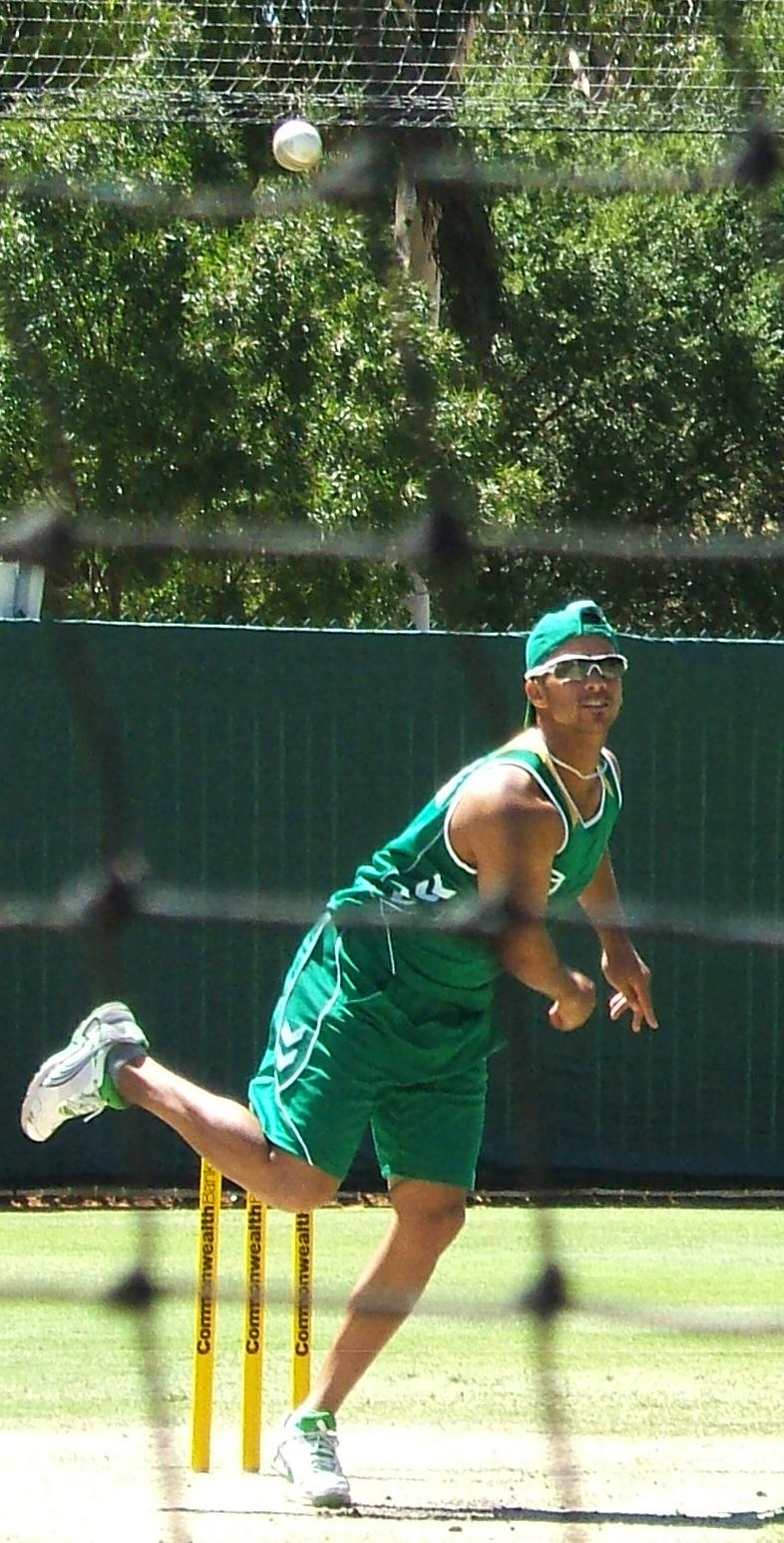 JP Duminy at a training session at the Adelaide Oval